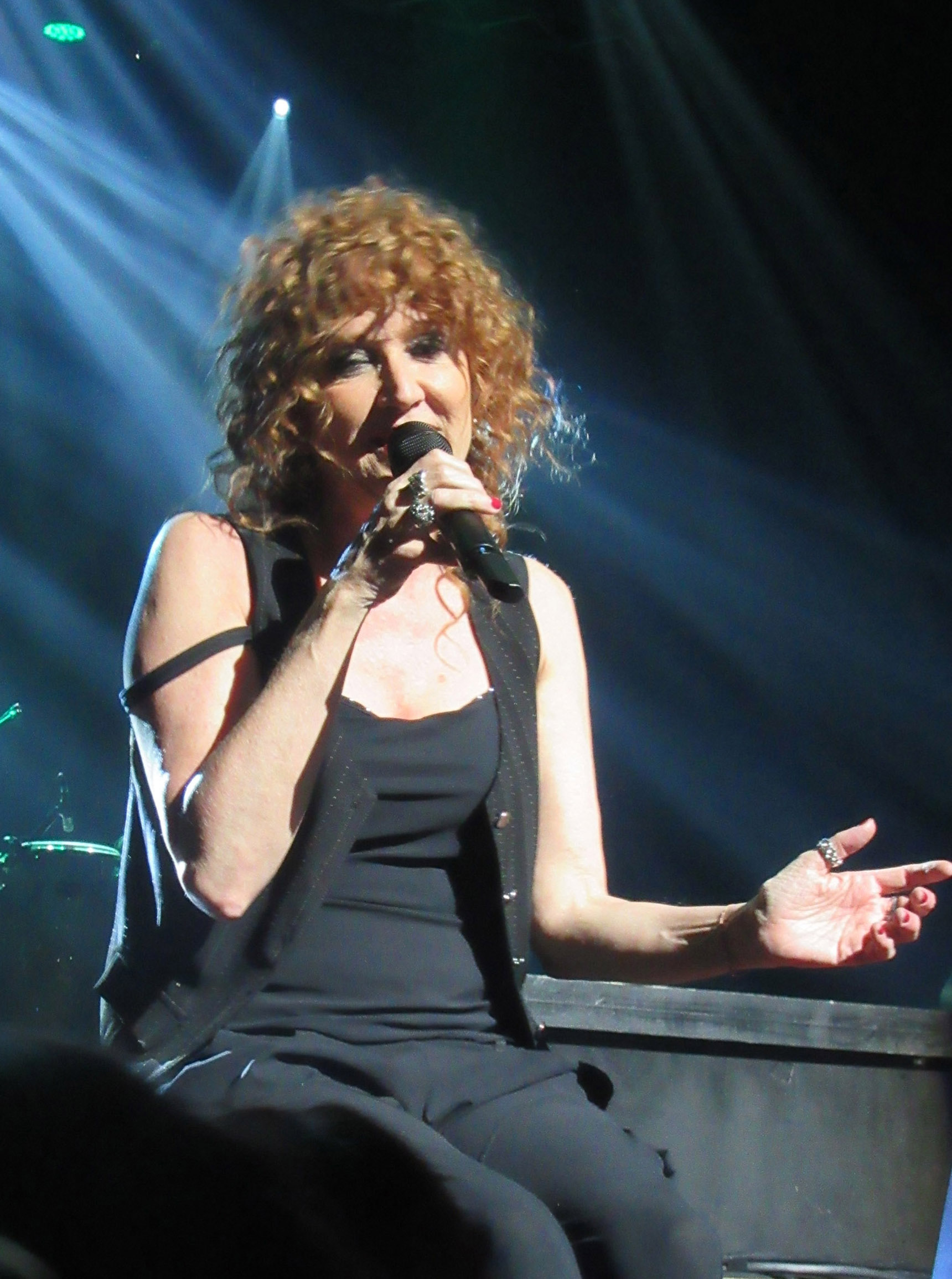 Fiorella mannoia in concert, at Teatro Ponchielli, Cremona, Italy, Dec. 11th, 2017